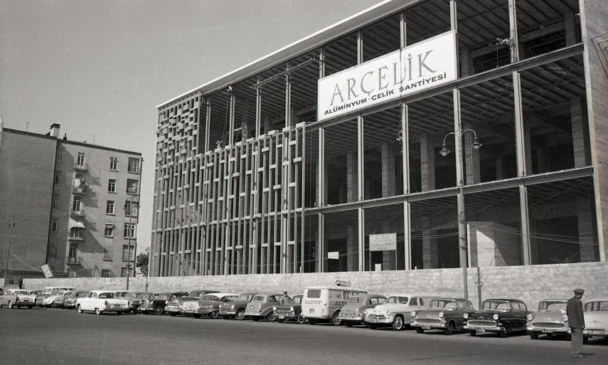 AKM, construction of the aluminium facade, 1960s Producer: Arçelik SALT Research, Hayati Tabanlıoğlu Archive AKM alüminyum cephe inşaatı, 1960'lar Cephe üreticisi: Arçelik SALT Araştırma, Hayati Tabanlıoğlu Arşivi